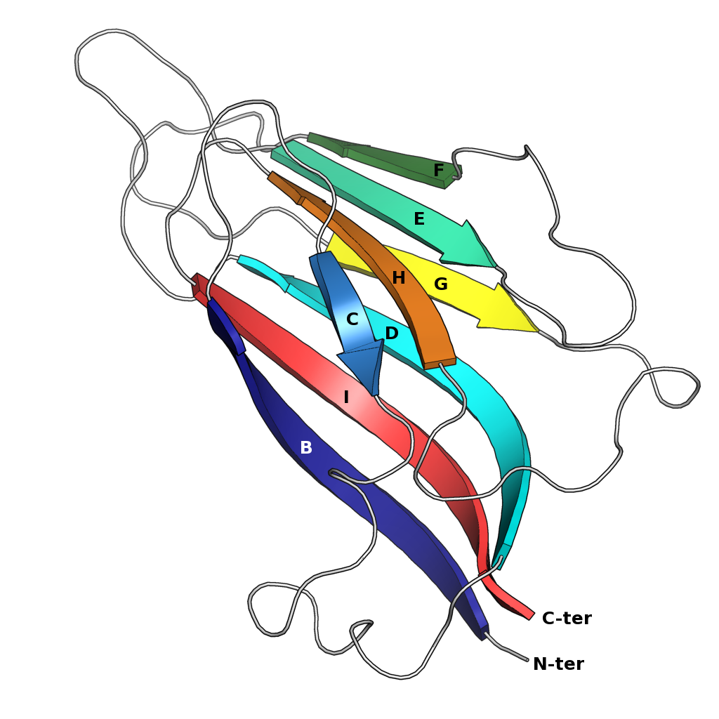 The "jelly roll" protein fold, illustrated using the satellite tobacco mosaic virus capsid protein. The eight beta sheets are labeled with the canonical lettered designations, highlighting the CHEF and BIDG sheet packing. For clarity, other secondary structures and the long N-terminal tail are not shown. In File:4oq9 capsid.png this monomer with the same color scheme is shown in the context of the full capsid. Rendered using PyMol from chain A of PDB ID 4OQ9: Larson SB, Day JS, McPherson A. (2014). Satellite tobacco mosaic virus refined to 1.4 Å resolution. Acta Crystallogr D Biol Crystallogr. 2014 Sep 1; 70(Pt 9): 2316–2330. DOI 10.1107/S1399004714013789